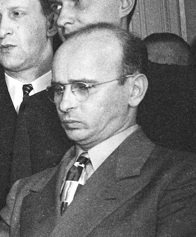 Samuel Reshevsky at the 1948 World Chess Championship draw